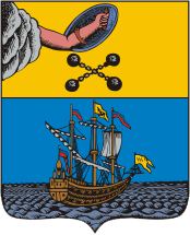 Lodeinoe Pole (Leningrad oblast), coat of arms (1788)